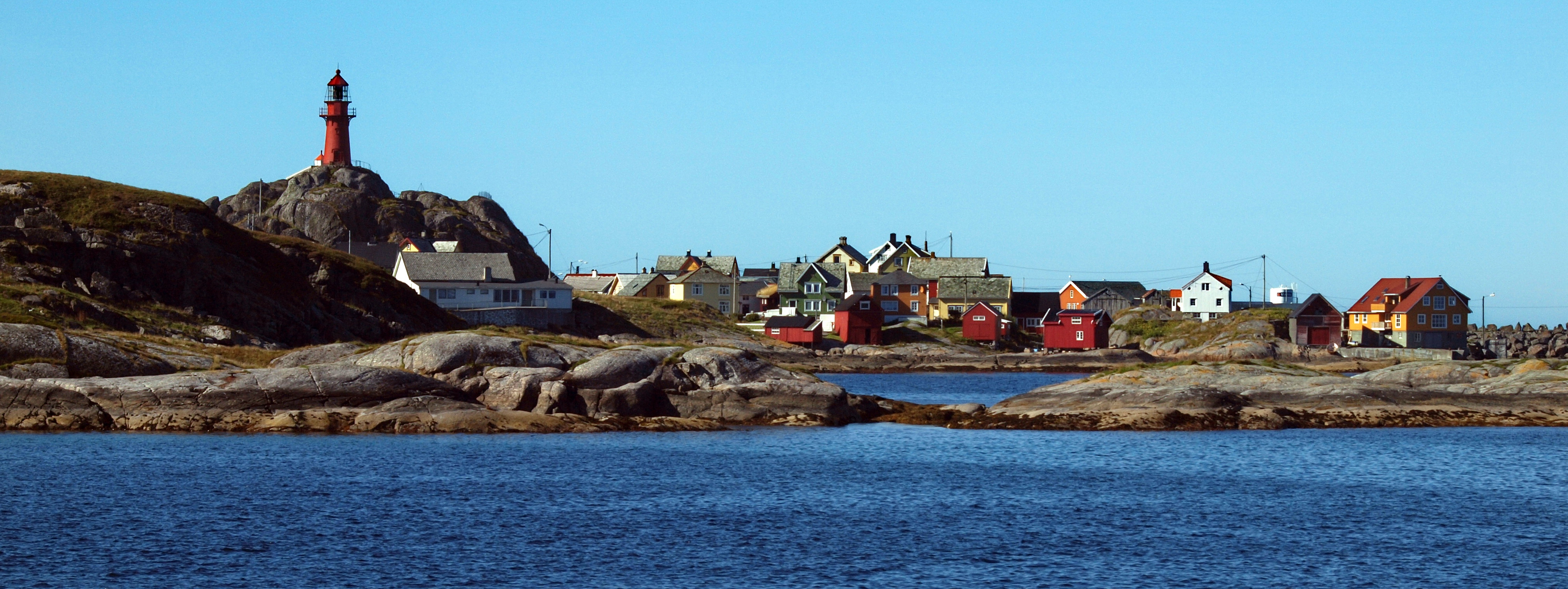 Ona fishing village, Sandøy municipality, Møre og Romsdal county, Norway.